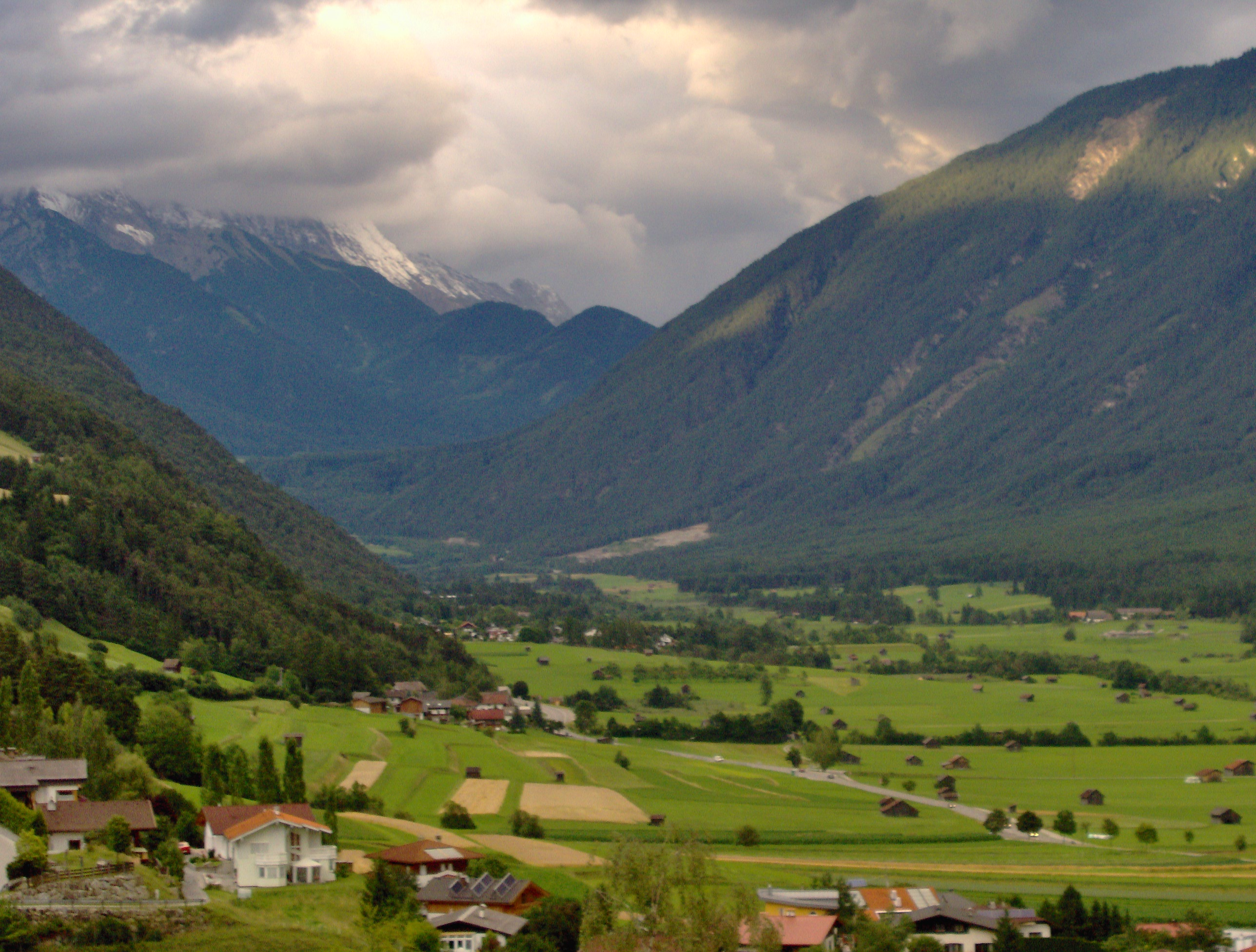 View from Tarrenz into the Gurgltal, Tyrol, Austria